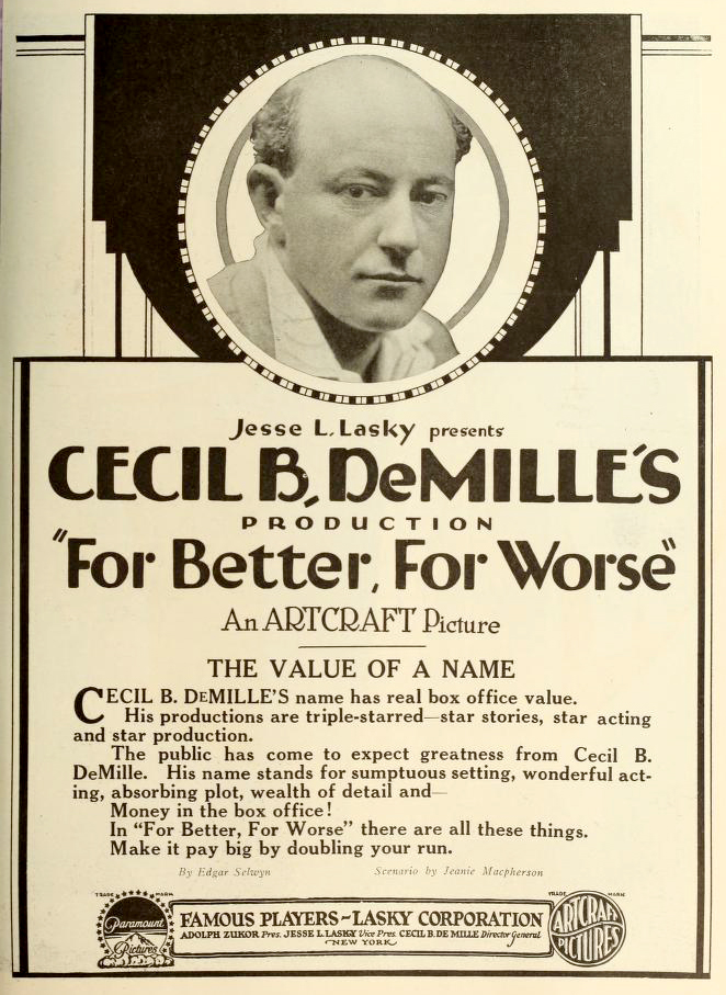 Advertisement, Moving Picture World, May 1919 for the film For Better, for Worse (1919).